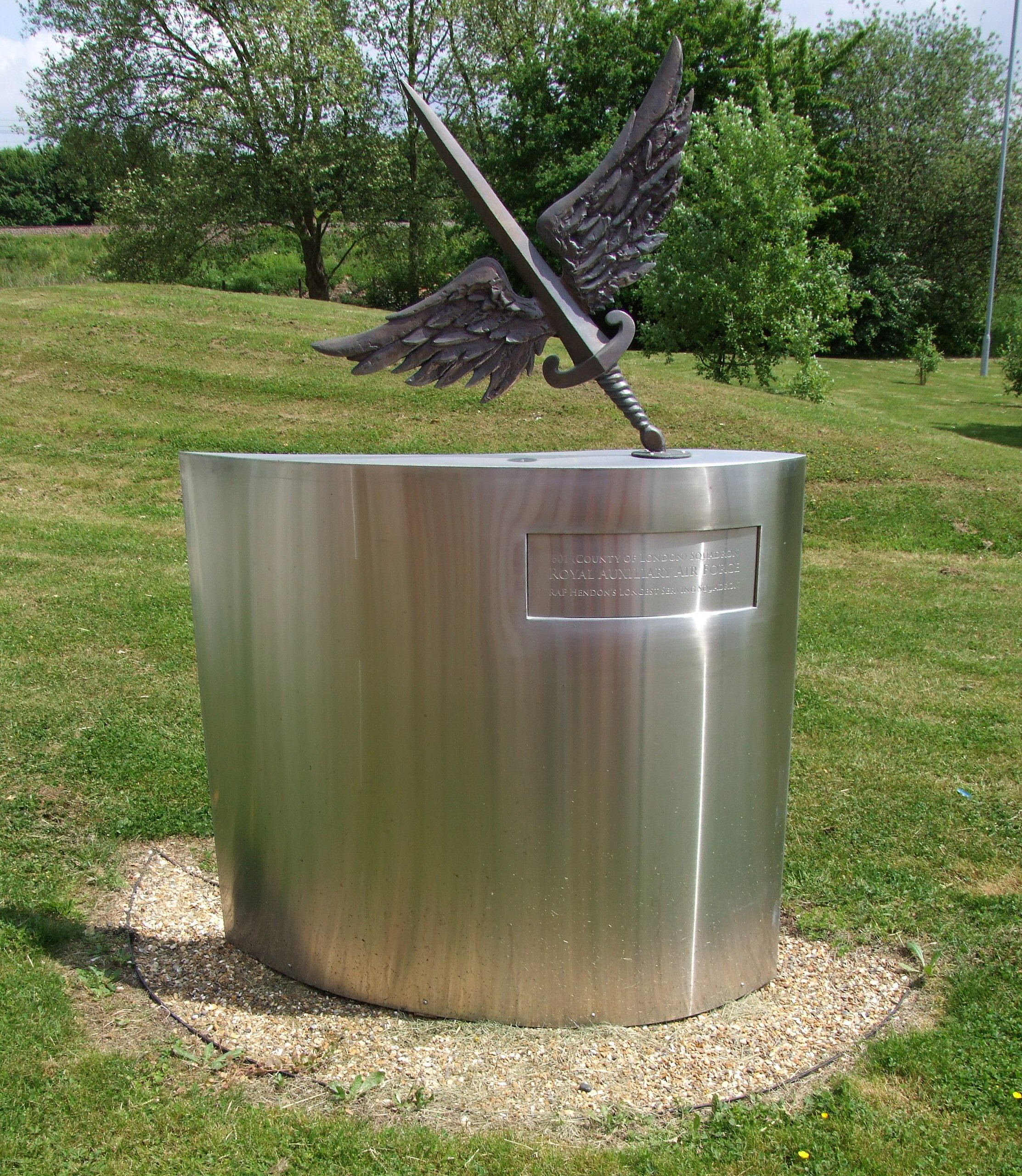 Memorial to 601 (County of London) Squadron Royal Auxiliary Airforce at the site of the former RAF Hendon airfield - now the Royal Air Force Museum. Inscription reads "601 (County of London) Squadron Royal Auxiliary Airforce RAF Hendon's longest serving squadron"